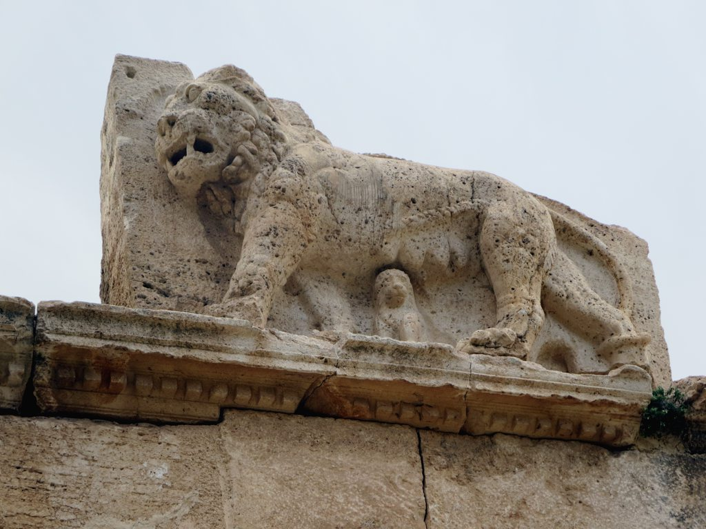 The figure of a lion still stands on the wall of the 2nd century BC Qasr al-Abd Palace at Iraq El-Amir east of Amman, Jordan.